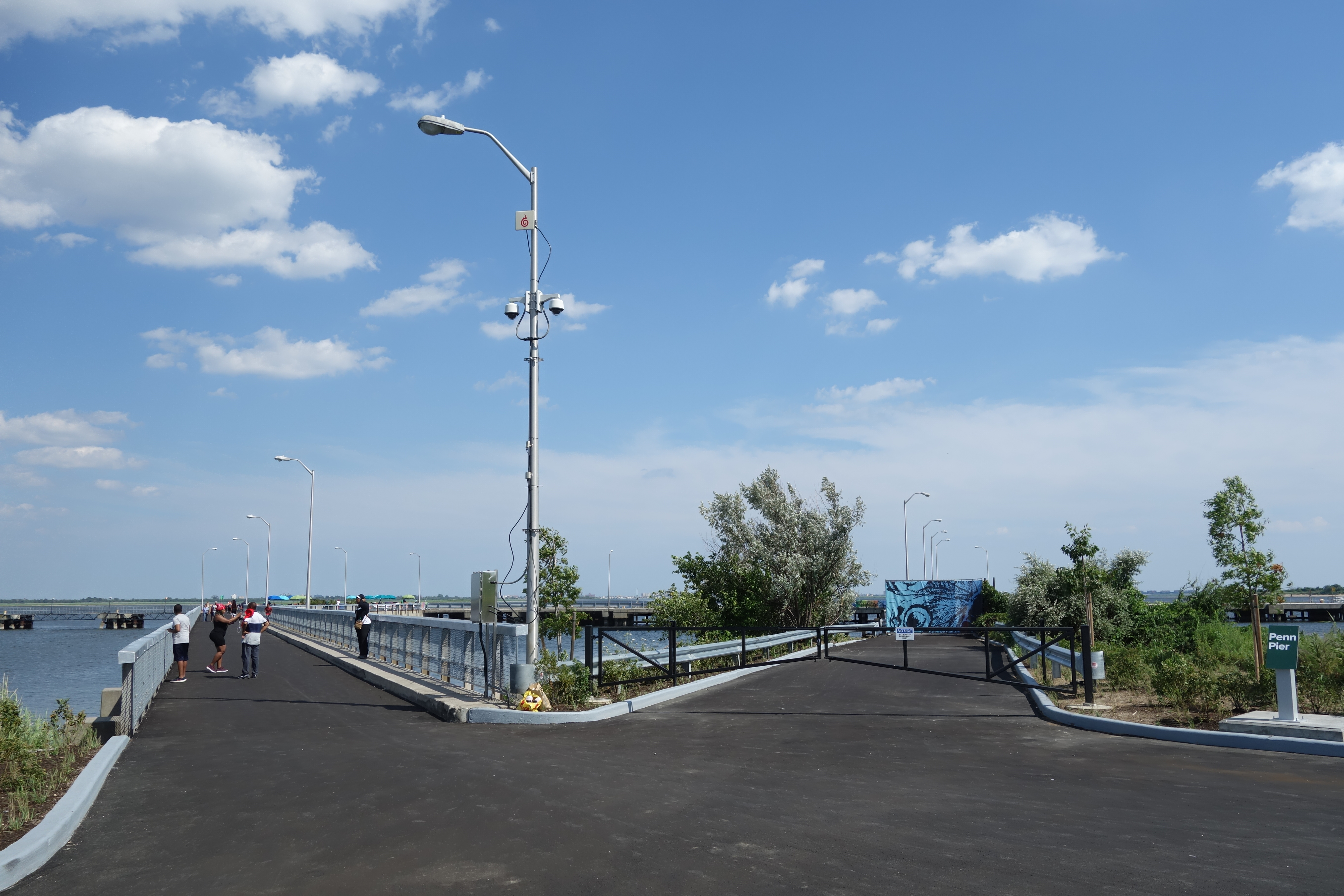 The entrance to Penn Pier at the southeast corner of the Penn Park section of Shirley Chisholm State Park, above the mouth of Hendrix Creek along Jamaica Bay near Starrett City in Spring Creek, Brooklyn. Originally used as part of the Pennsylvania Avenue Landfill, the pier was modified from its original fingerpier design into the current triangle structure during the 2000s restorations of the landfill site. The path to the right (west) was the original pier.